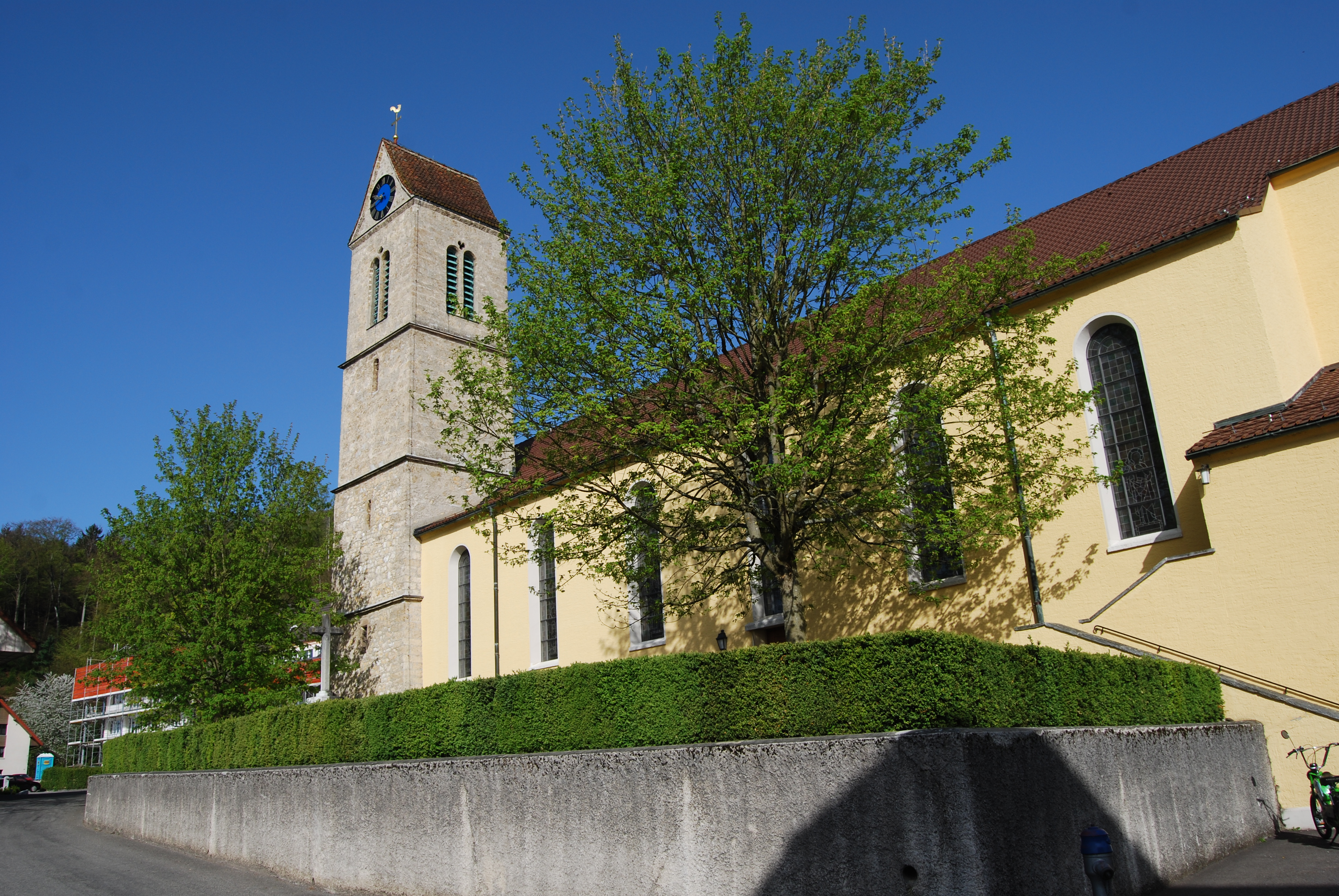 Church of Oberbuchsiten, canton of Solothurn, SwitzerlandEsperanto: Preĝejo de Oberbuchsiten, Kantono Soloturno, Svislando